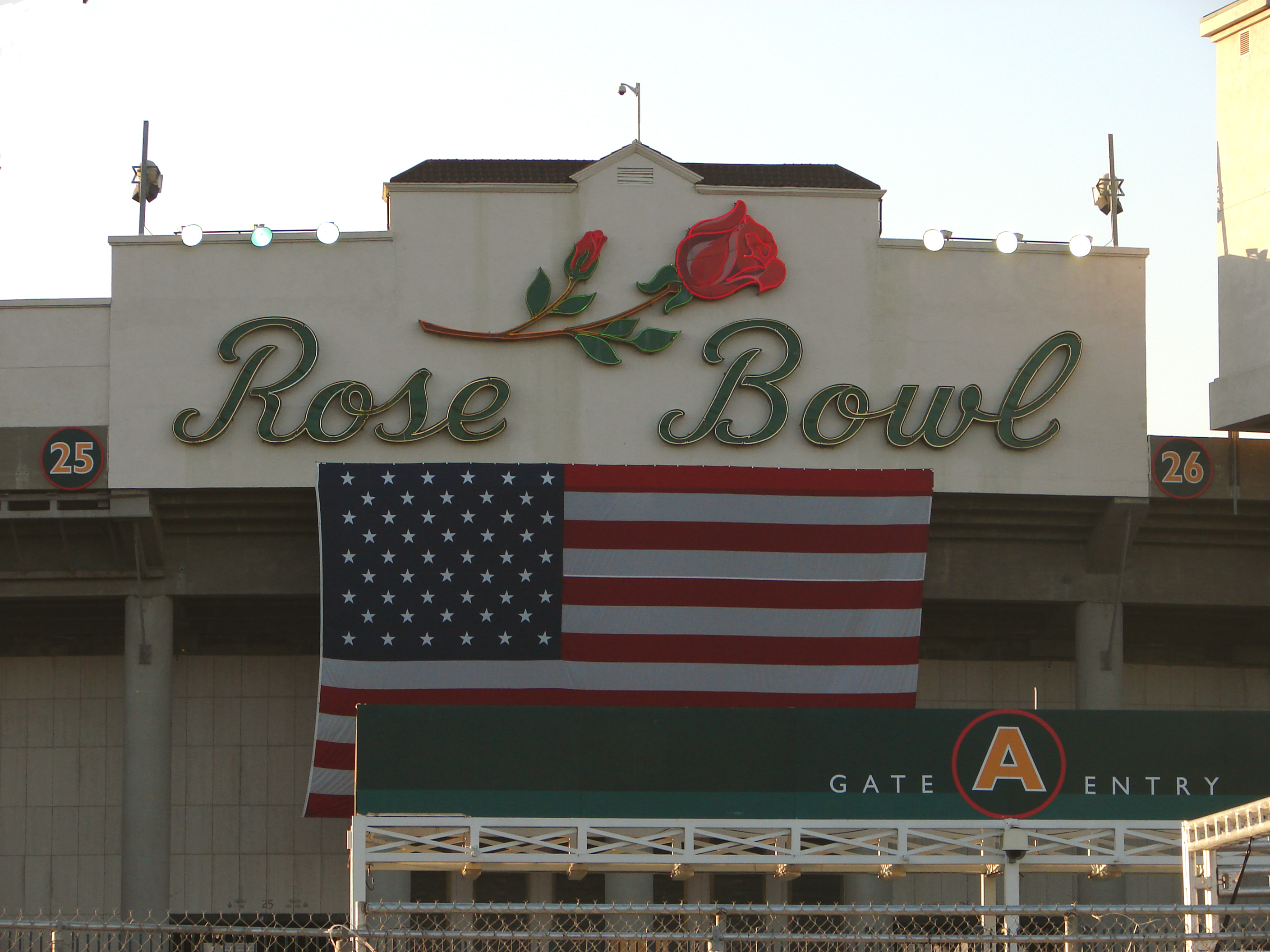 An entrance to the Rose Bowl Stadium in Pasadena, California, host of the annual Rose Bowl game